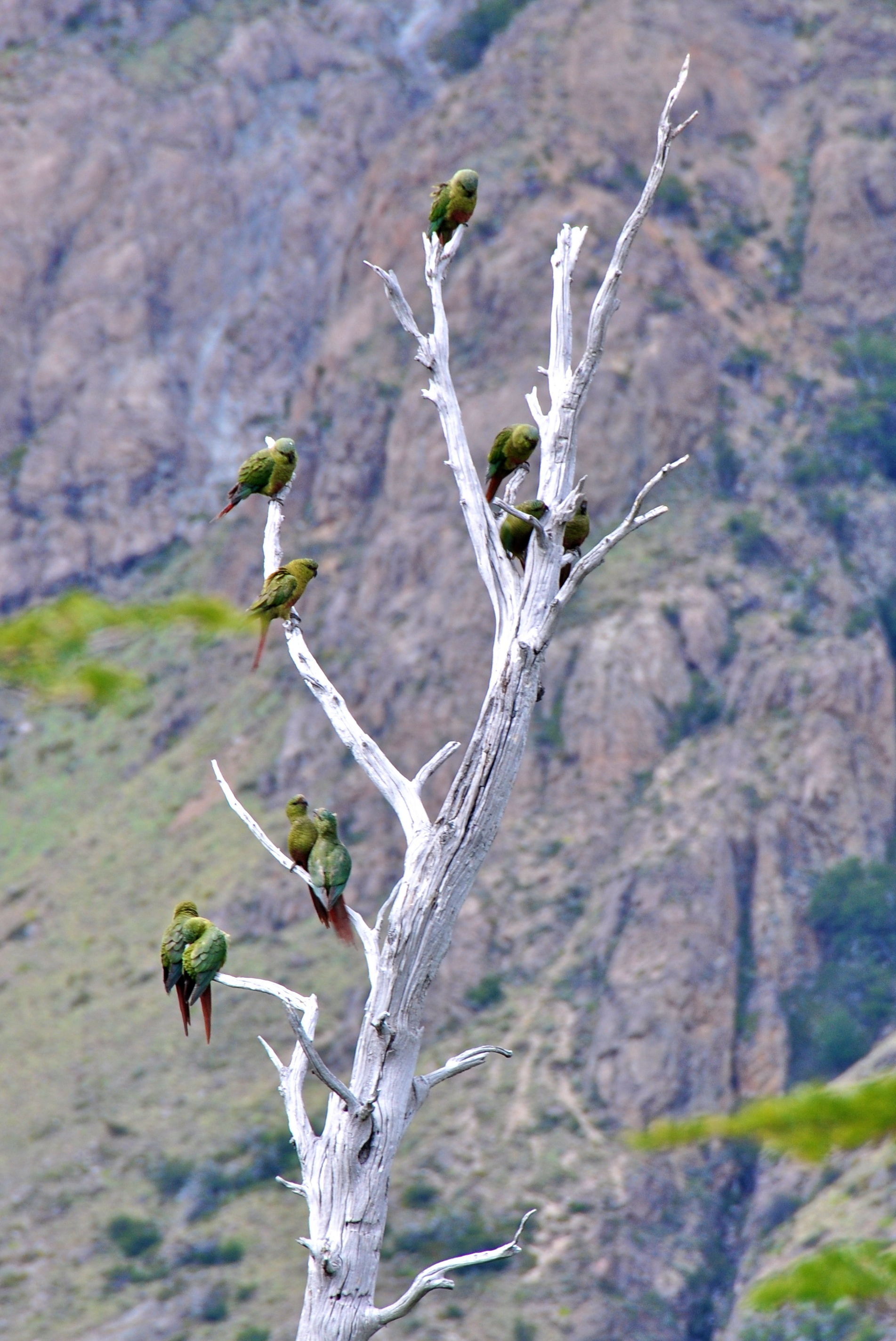 Ten Austral Parakeets (also known as Austral Conure and Emerald Parakeet) perching in a tree in Glaciers National Park, Santa Cruz, Patagonia, Argentina.